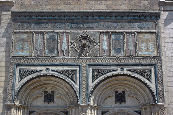 Al-Azhar Mosque. Cairo. Egypt